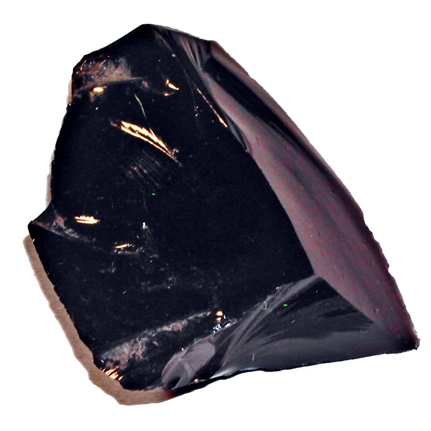 A specimen of obsidian from Lake County, Oregon обсидиан состоит из лавы и 1% воды